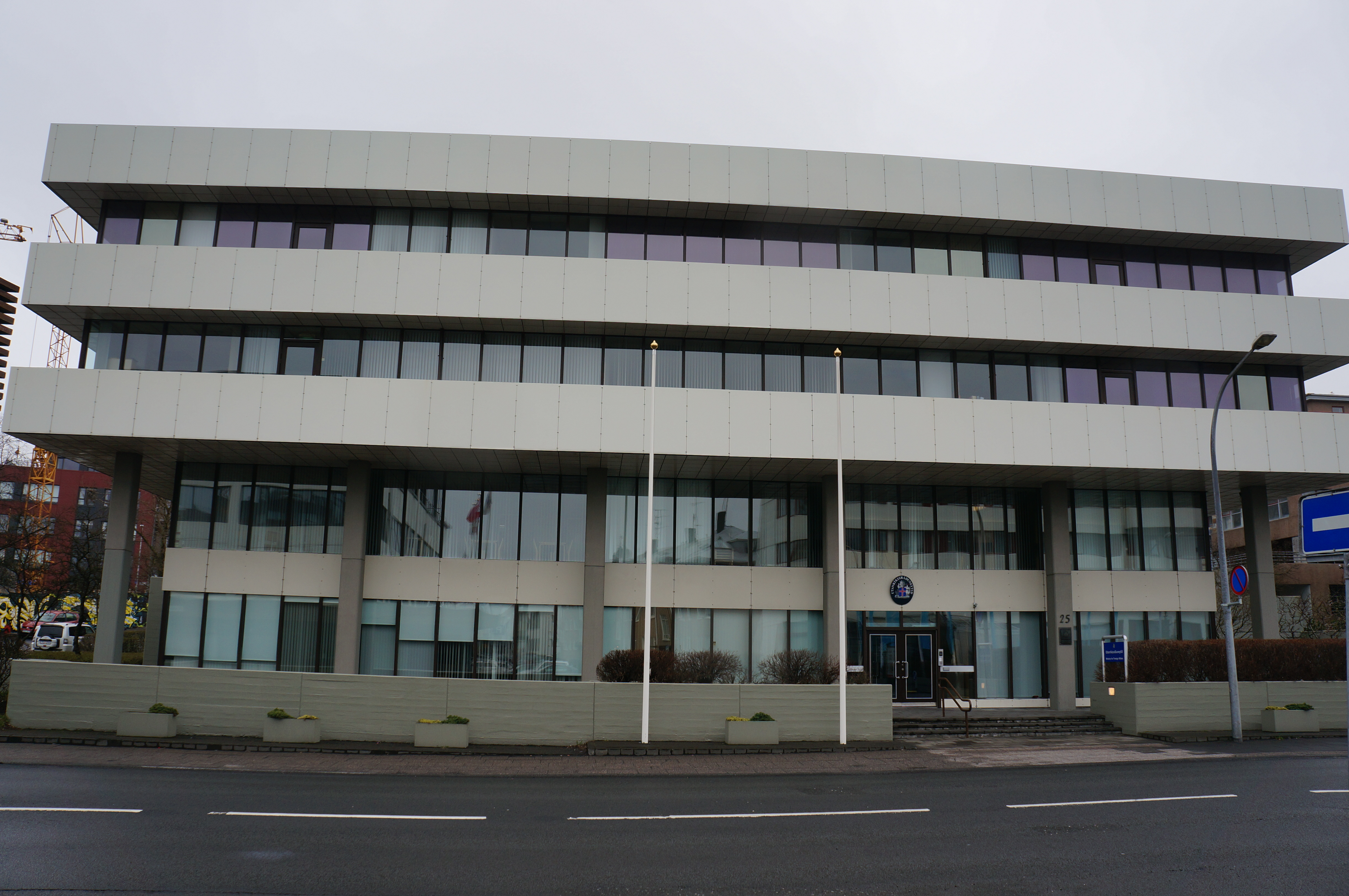 In Iceland, the offices of the Icelandic Ministry of Foreign Affairs.